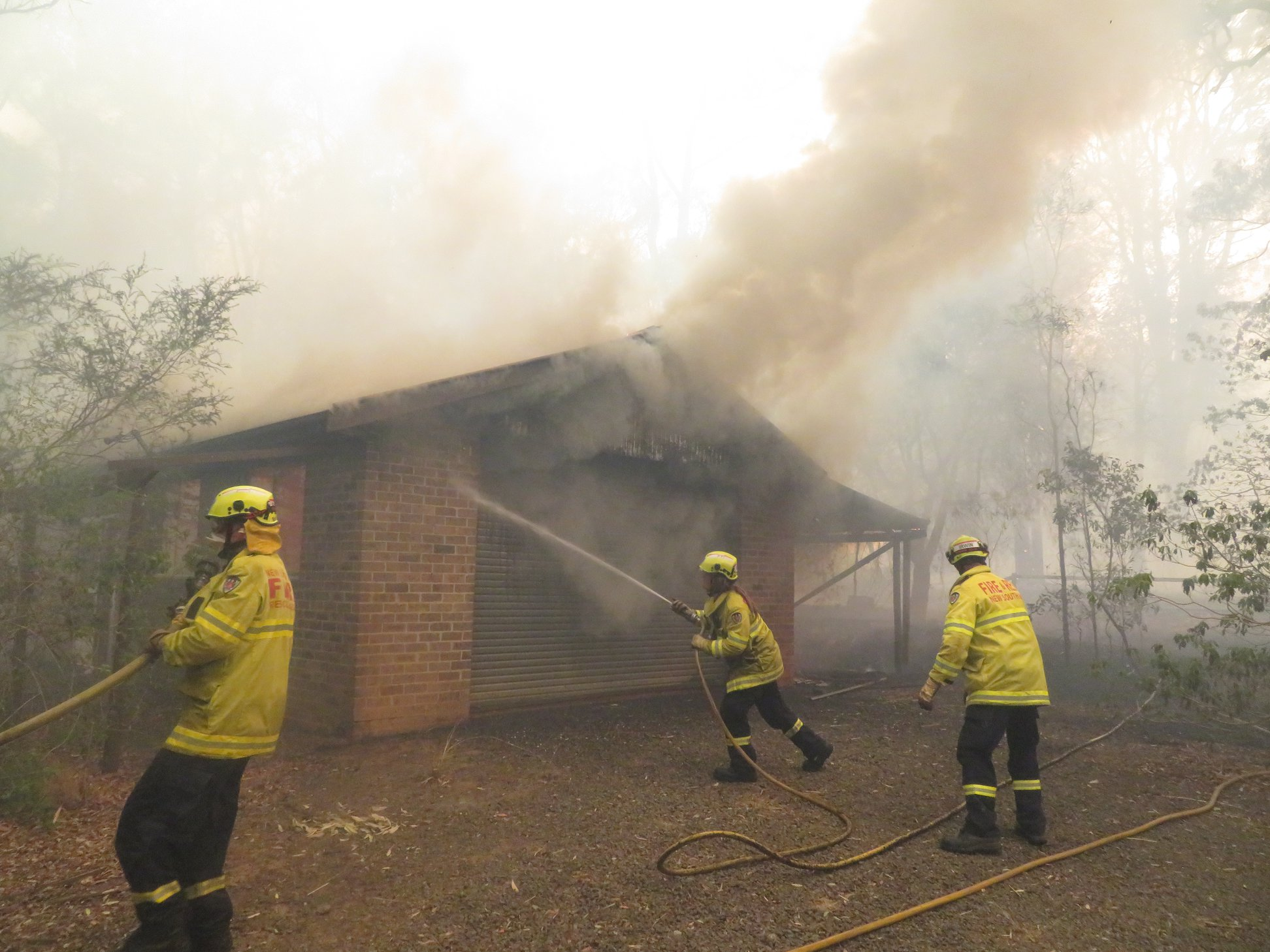 Fire and Rescue NSW firefighters work to save a burning house in McLeay Road hit by a direct impact from the Green Wattle Creek bushfire at Werombi in South West Sydney